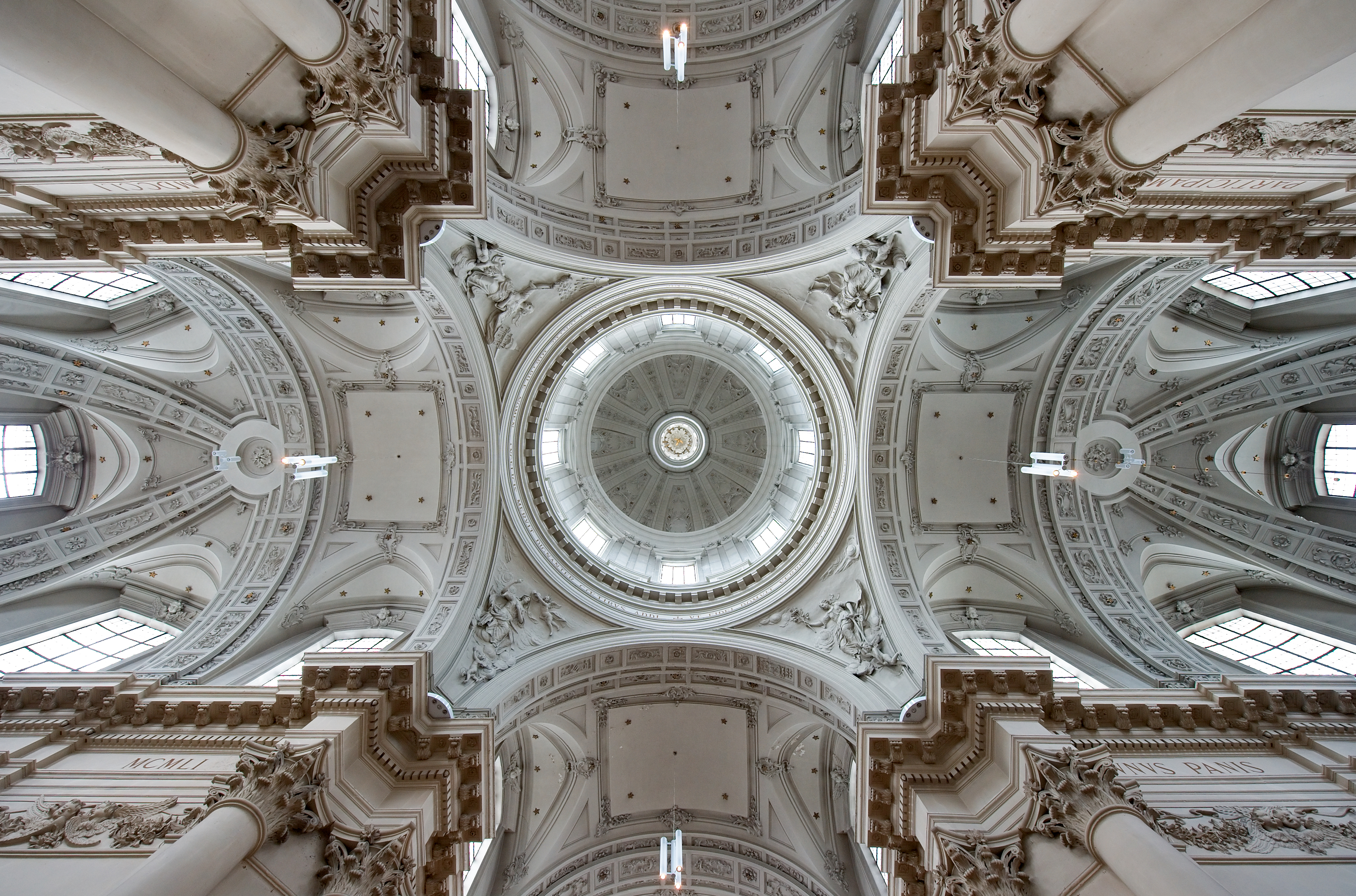 St Aubin's Cathedral (Belgium)